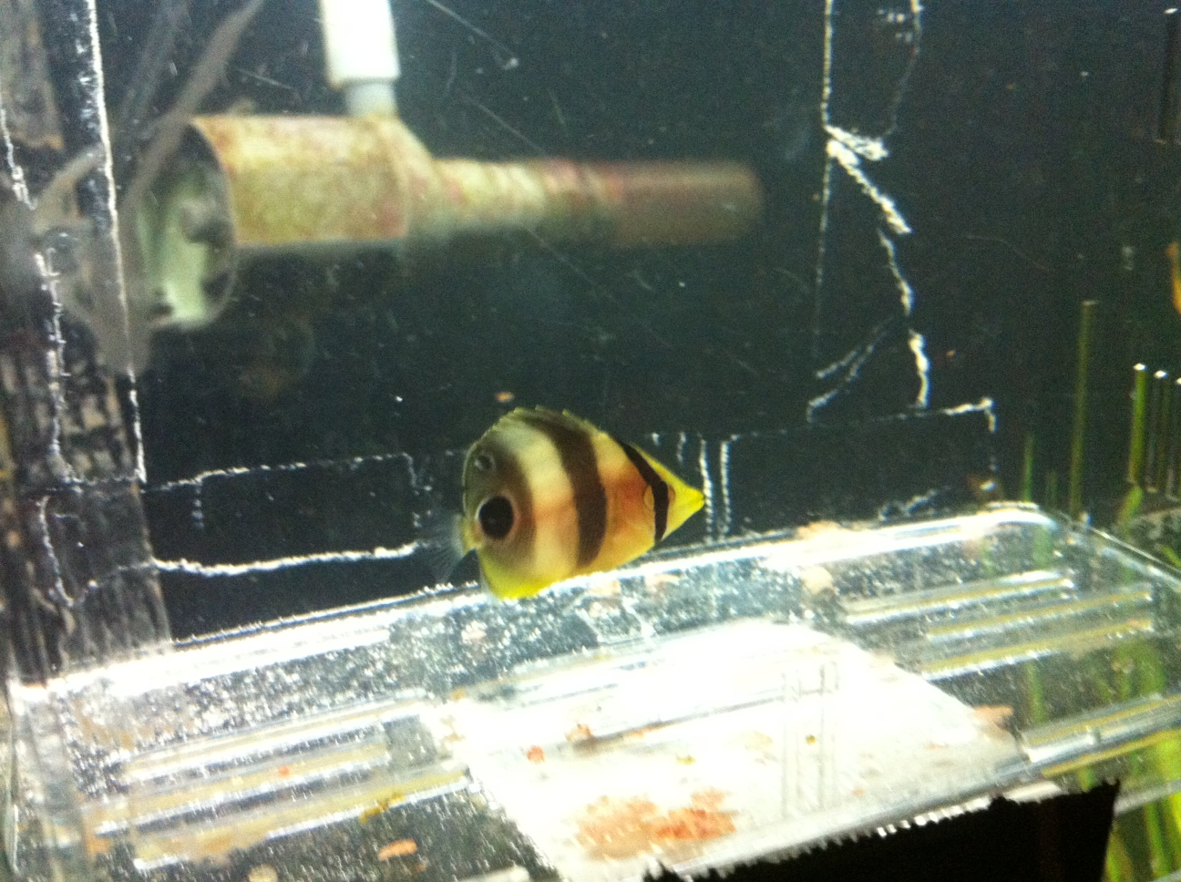 This photo contains a butterflyfish which was on display at the Maria Mitchell Aquarium in August of 2012.